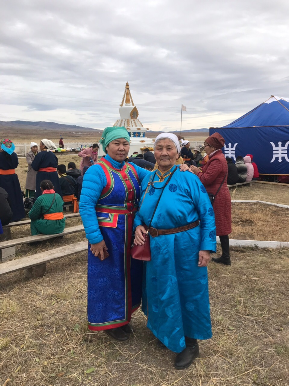 Barga Mongols in Buryatia